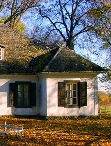 Sucha Palace in Poland